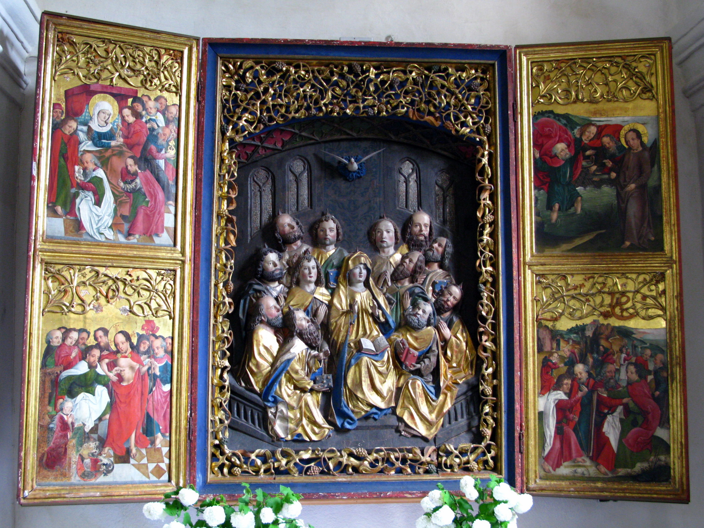 Gothic altar with wings of Lieseregg in the community of Seeboden / Spittal an der Drau / Carinthia / Austria / EU. The center of the altar is a carved relief depicting of Pentecost. The top left of the death of St. Mary's is presented. The left picture below shows the Doubting Thomas. In the left corner of kneeling in prayer John Siebenhierter, the founder of the shrine.